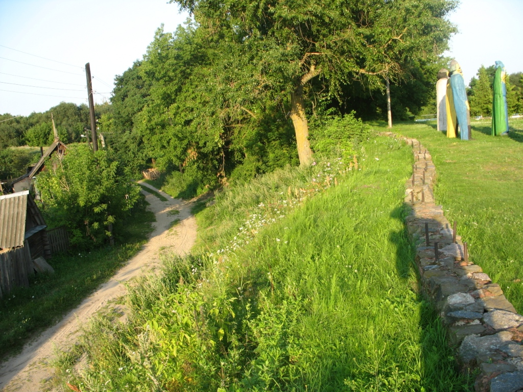 Hlusk_Castle_Belarus Глускі замак, паўночная вал-курціна між двума землянымі бастыёнамі